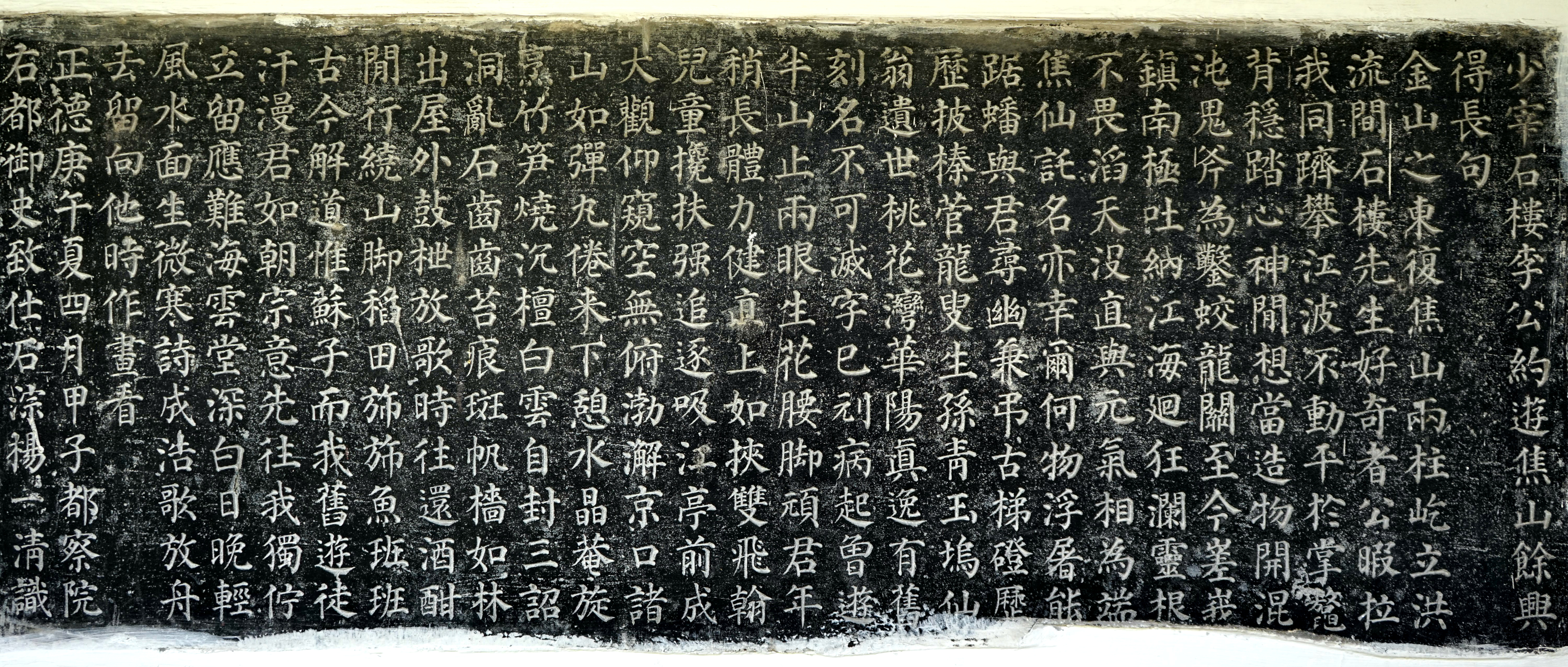 A Seven-syllable Verse on Jiaoshan by Yang Yiqing